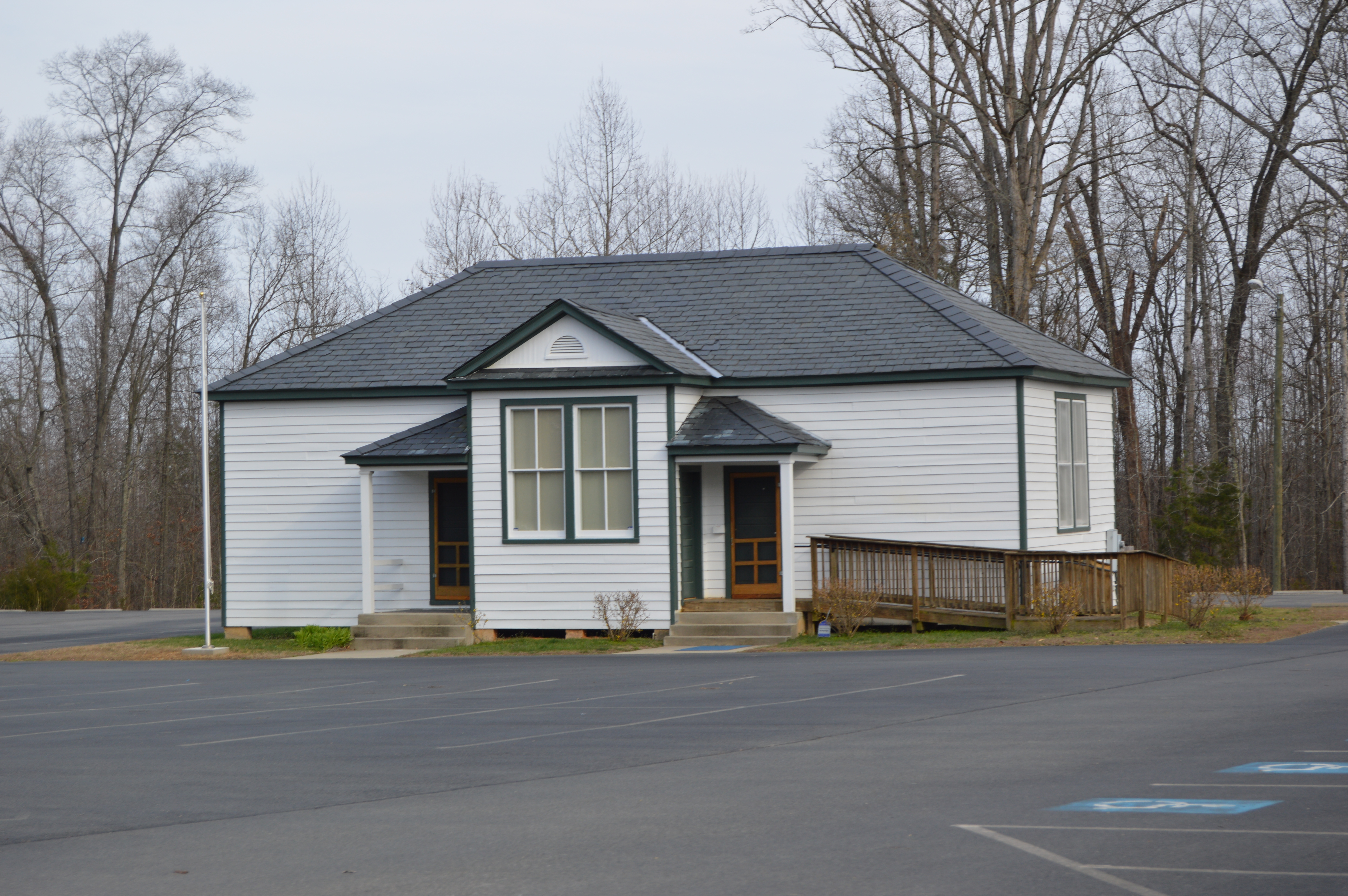 Front and southern side of the Second Union School, located at 2787 Hadensville Fife Road just southwest of the crossroads of Bula in Fluvanna County, Virginia, United States. Built in 1918, it is listed on the National Register of Historic Places.